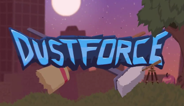 The logo of the video game Dustforce, as seen in the game's trailer.